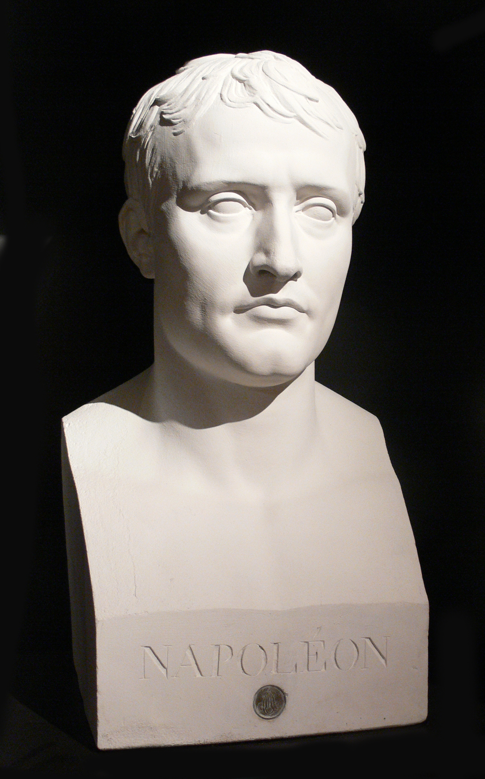 Bust of Napoléon I of France, by Antonio Canova, undated (after 1802), Fürstlich Fürstenbergische Sammlungen Donaueschingen